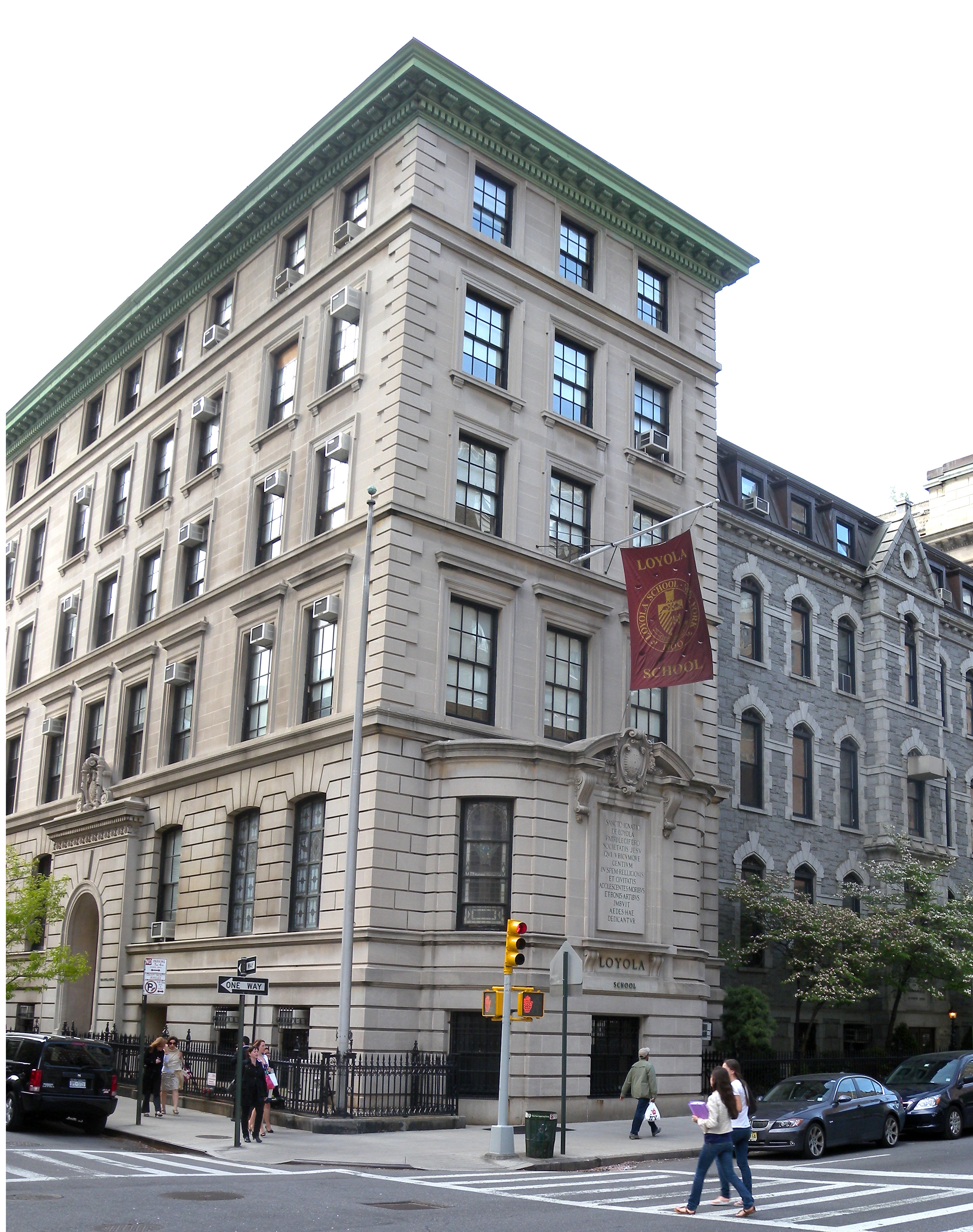 Looking north from Park Avenue and 83d at Loyola School (New York City) on a cloudy afternoon.